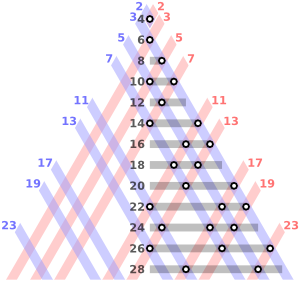 The even integers from 4 to 28 as sums of two primes. Goldbach's conjecture is that every even integer greater than 2 can be expressed as the sum of two primes in at least one way. Pictures covering larger ranges